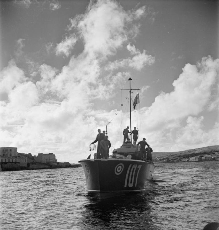 Royal Air Force Operations in Malta, Gibraltar and the Mediterranean, 1940-1945. '100' Class High Speed Launch HSL 107 of the RAF Air/Sea Rescue Unit, Malta, returns to its base at Kalafrana following a rescue call in the Mediterranean. HSL 107 was the longest-serving of the launches operated by the Malta A/SR Unit and was credited with 86 live rescues to the end of 1944.